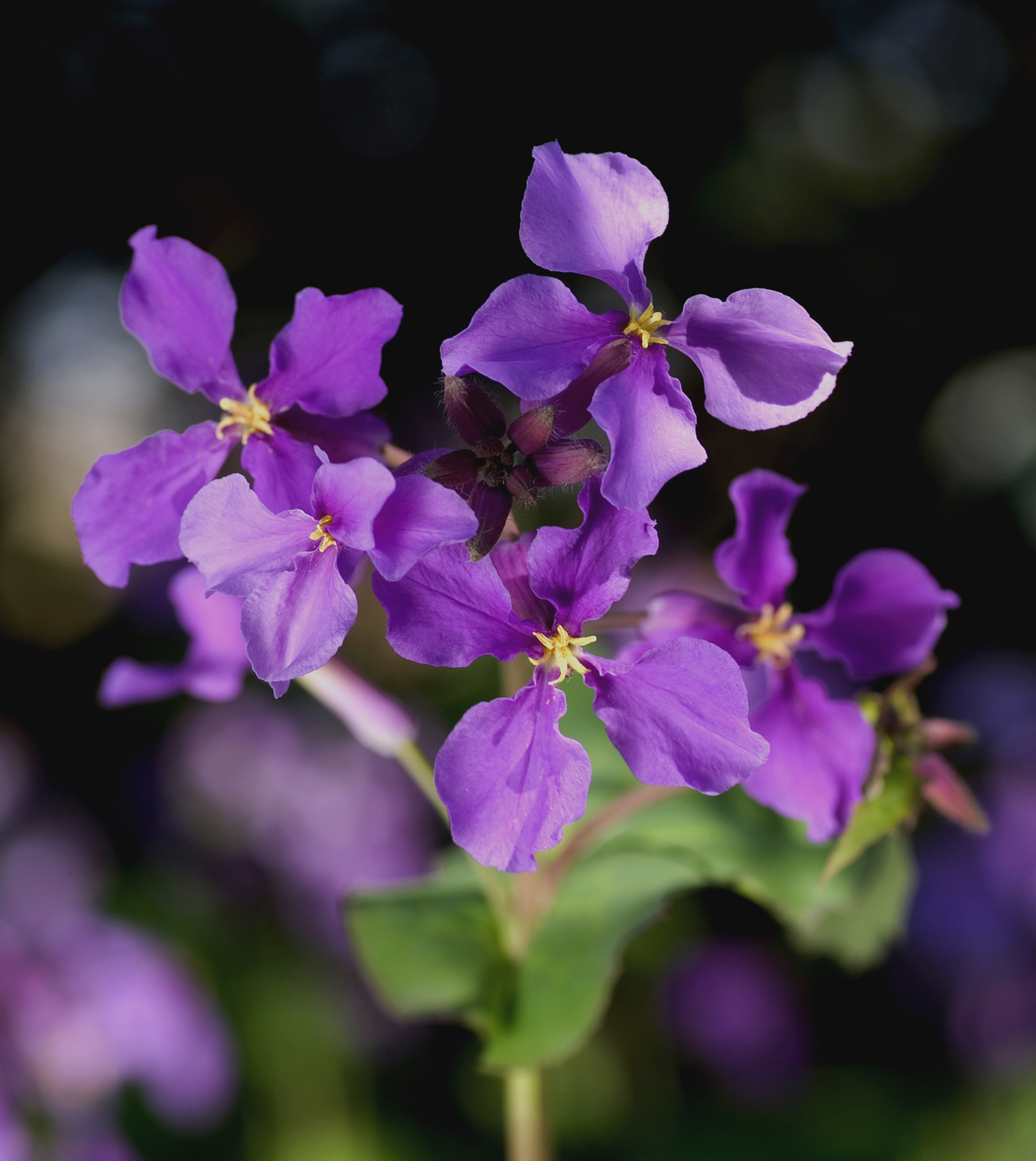 Chinese violet cress